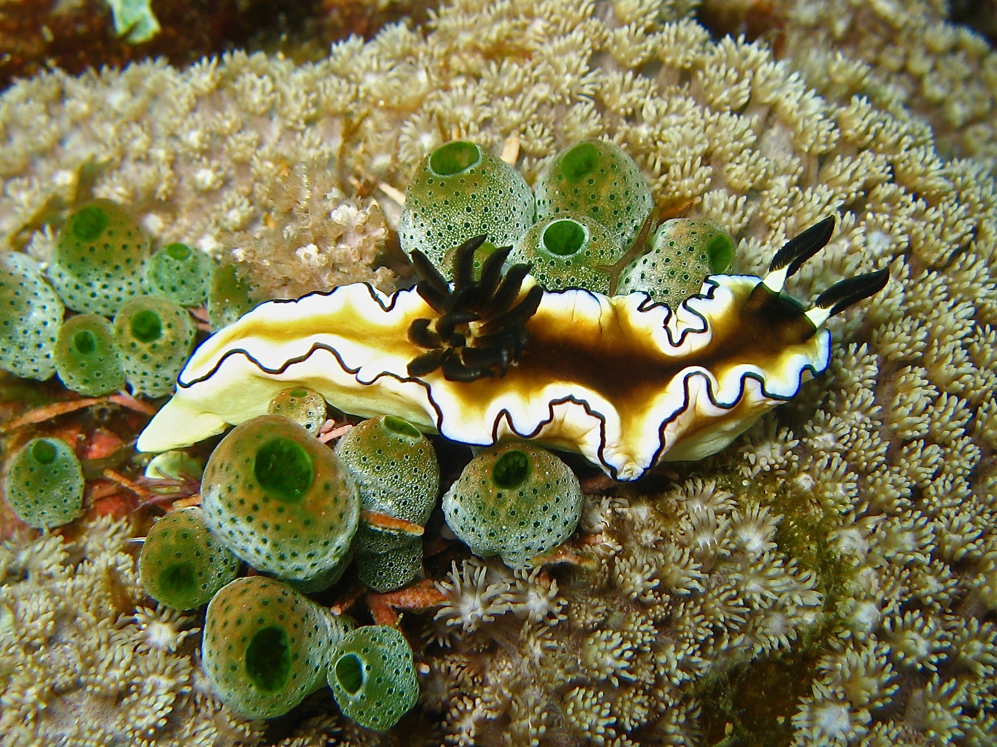 Nudibranch Doriprismatica atromarginata (Cuvier, 1804) (synonym: "Glossodoris atromarginata") taken at Verde Island, the Philippines.